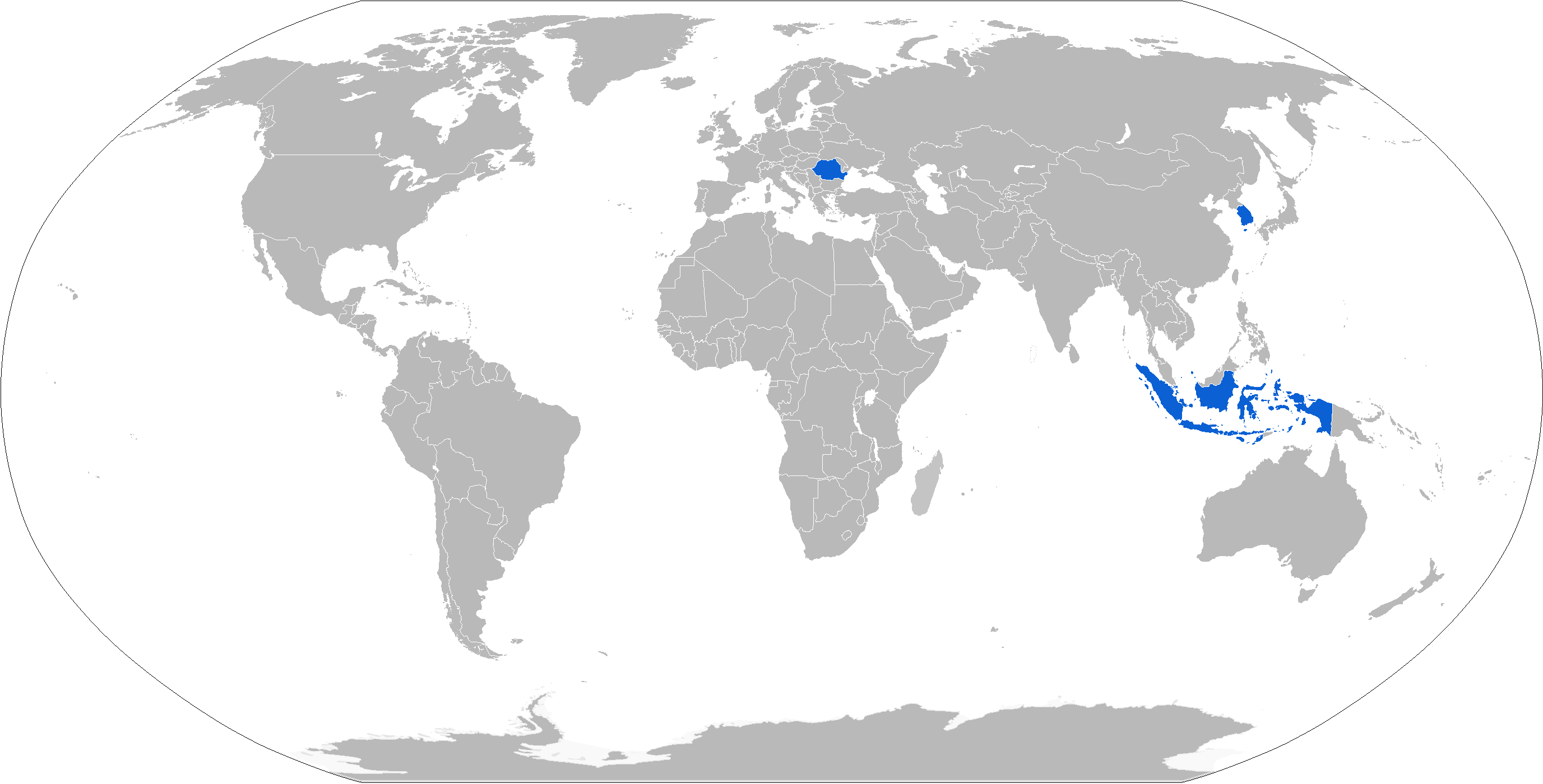 Map with Chrion operators in blue